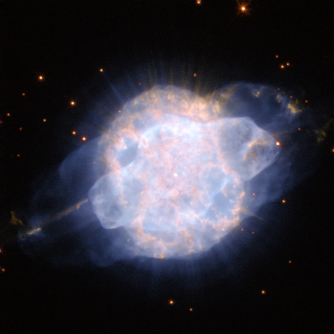 This dramatic image from the NASA/ESA Hubble Space Telescope shows the planetary nebula NGC 3918, a brilliant cloud of colourful gas in the constellation of Centaurus, around 4900 light-years from Earth.